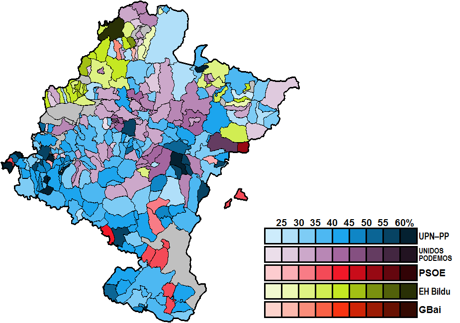 Most-voted party in Navarre municipalities, showing vote share obtained, in the Spanish general election, 2016.